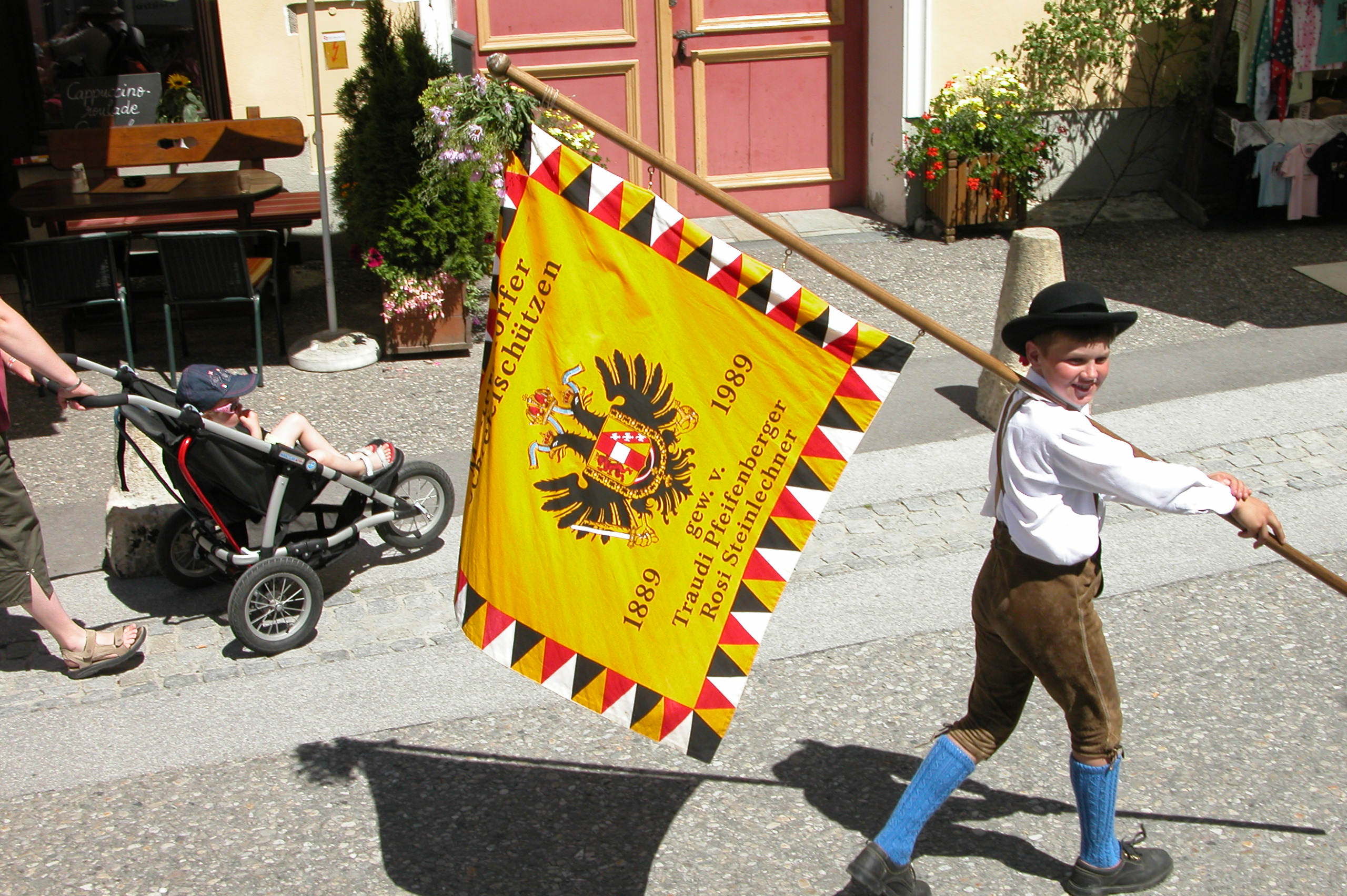 Giant Samson from Mauterndorf